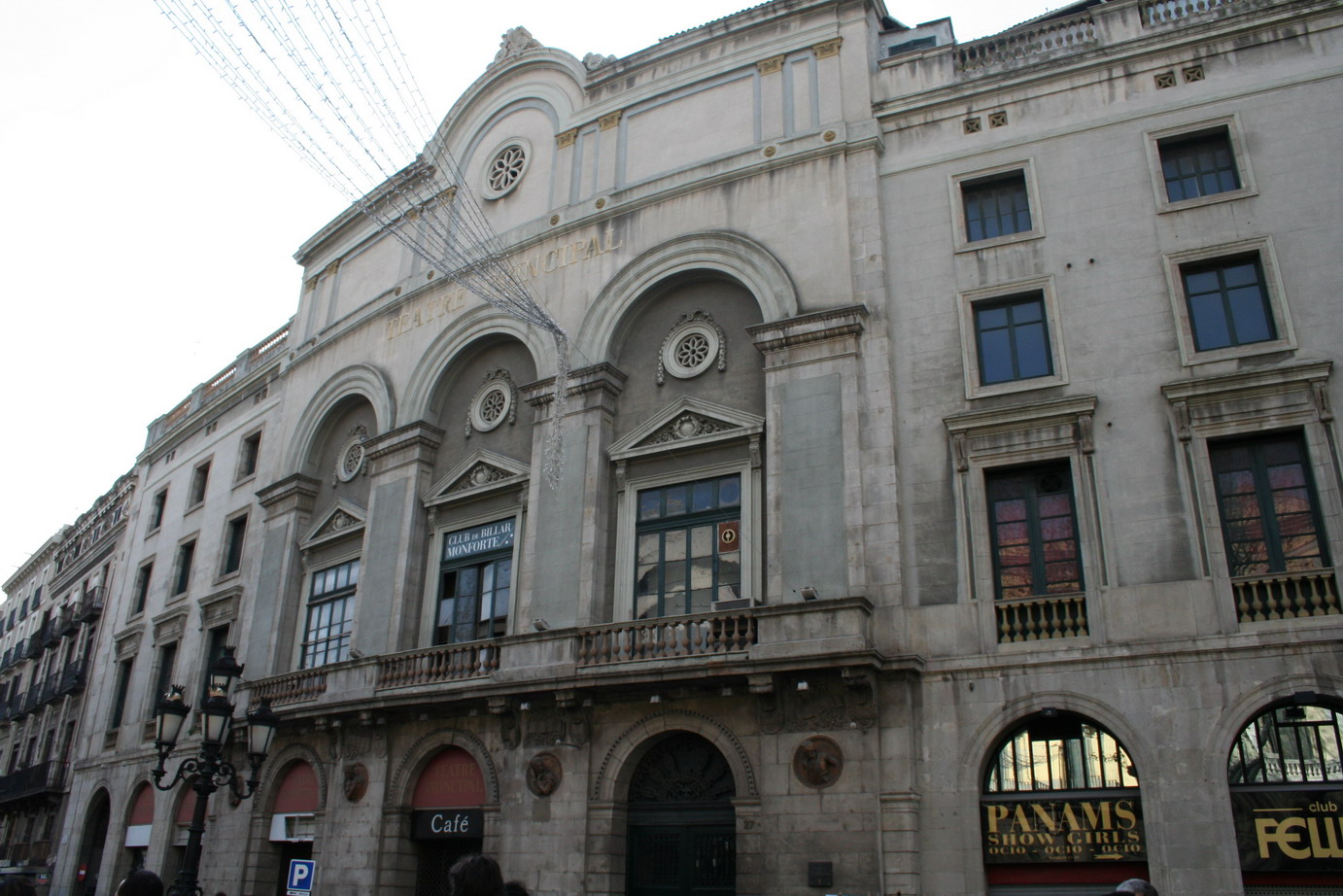 Teatre Principal, Barcelona. Built in 1847 by architect Francesc Daniel Molina i Casamajó.